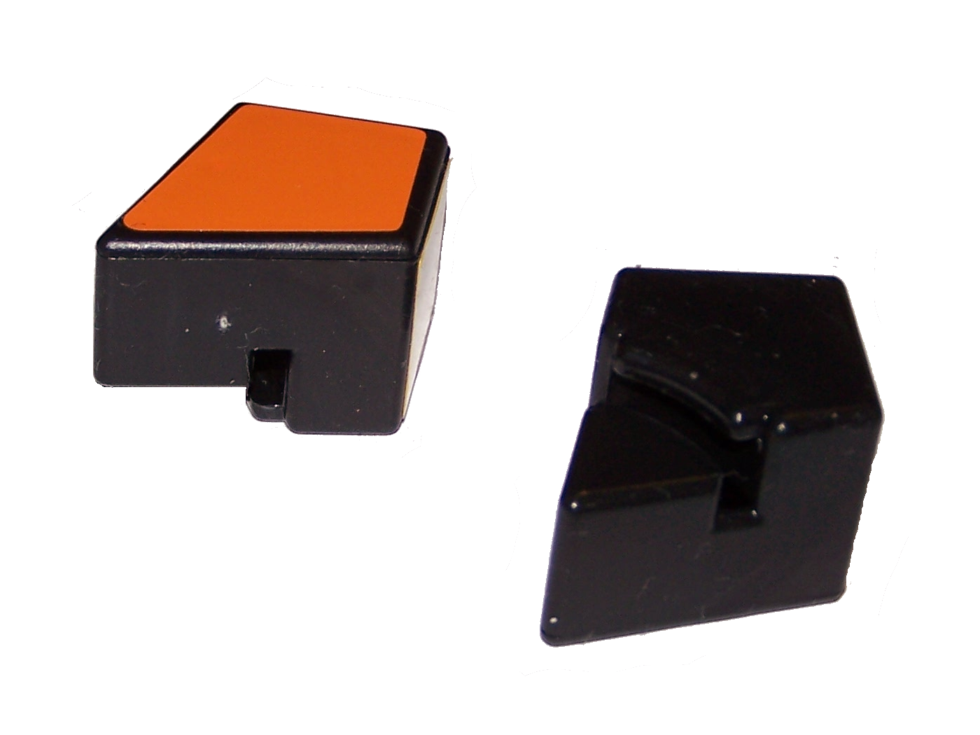 2 of 8 corner pieces of a Square One